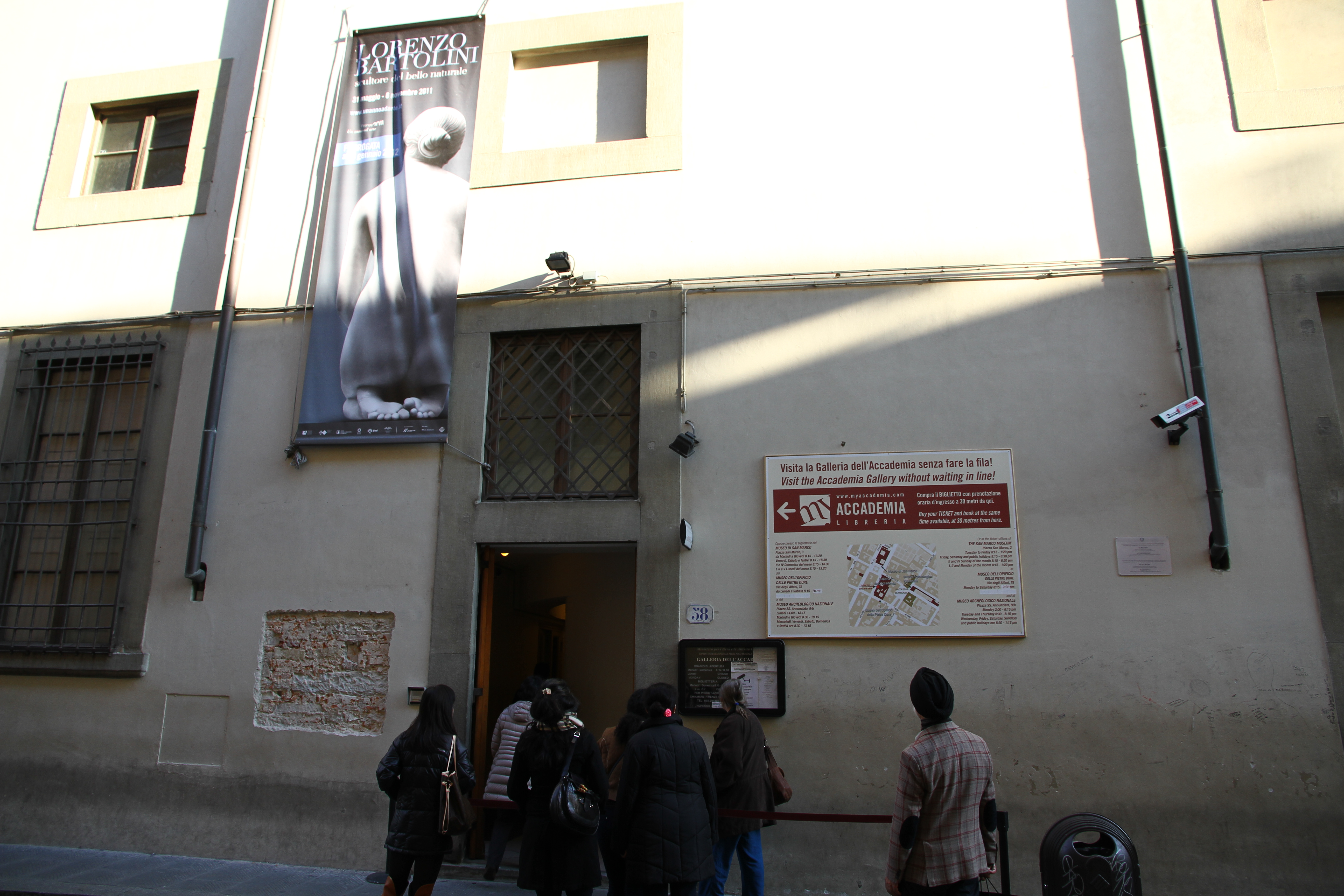 entrance of Galleria dell'Accademia where Michelangelo's David is housed